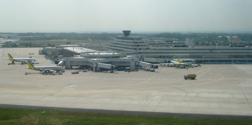 Cologne Bonn Airport – Terminal 1.